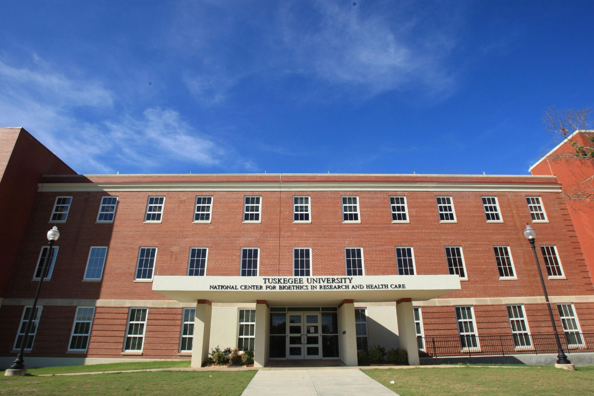 Tuskegee University's National Center for Bioethics in Research and Health Care.